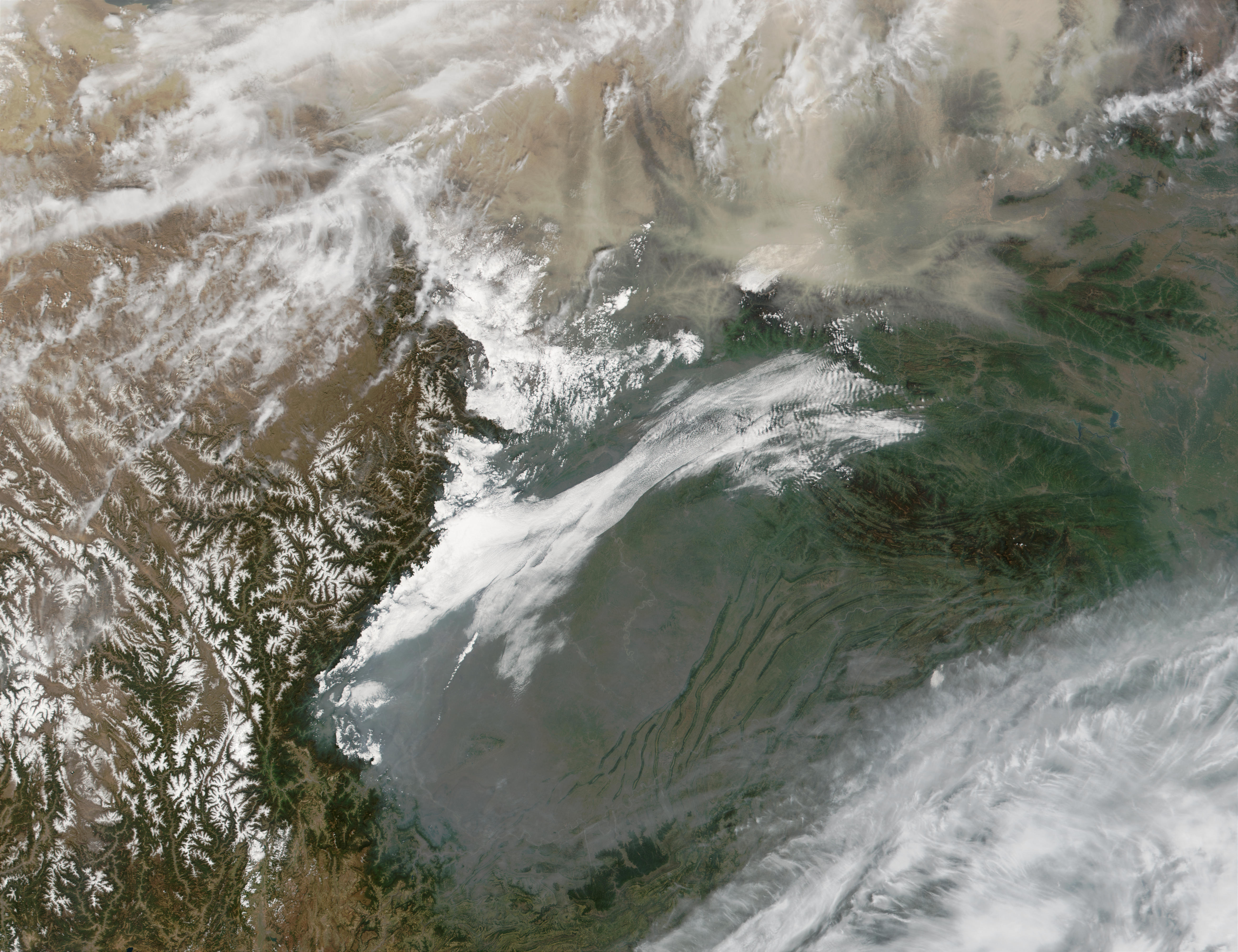 Satellite photo of the Sichuan Basin — in Sichuan Province, north-central China. Showing two different kinds of aerosols (particles suspended in the atmosphere). At top right is dust from the Gobi Desert (out of the scene at upper left); and below that is pollution from the urban and industrial centers of the Sichuan Basin in Sichuan.